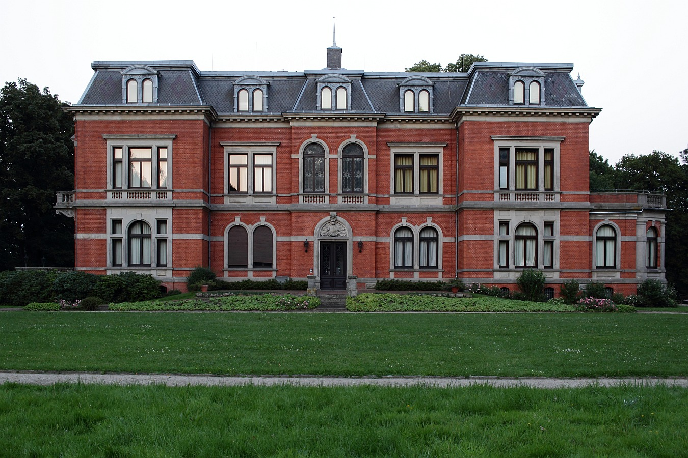 Manor house Schloss Etelsen (Neo-renaissance, built 1885–1887) near Verden (Germany) - Western face.